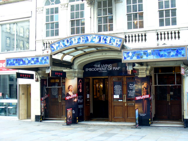 Vaudeville Theatre One of several theatres on the Strand. This is the third Vaudeville on the site - built 1926. Earlier versions were built 1870 and 1891. The posters advertise "Piaf".